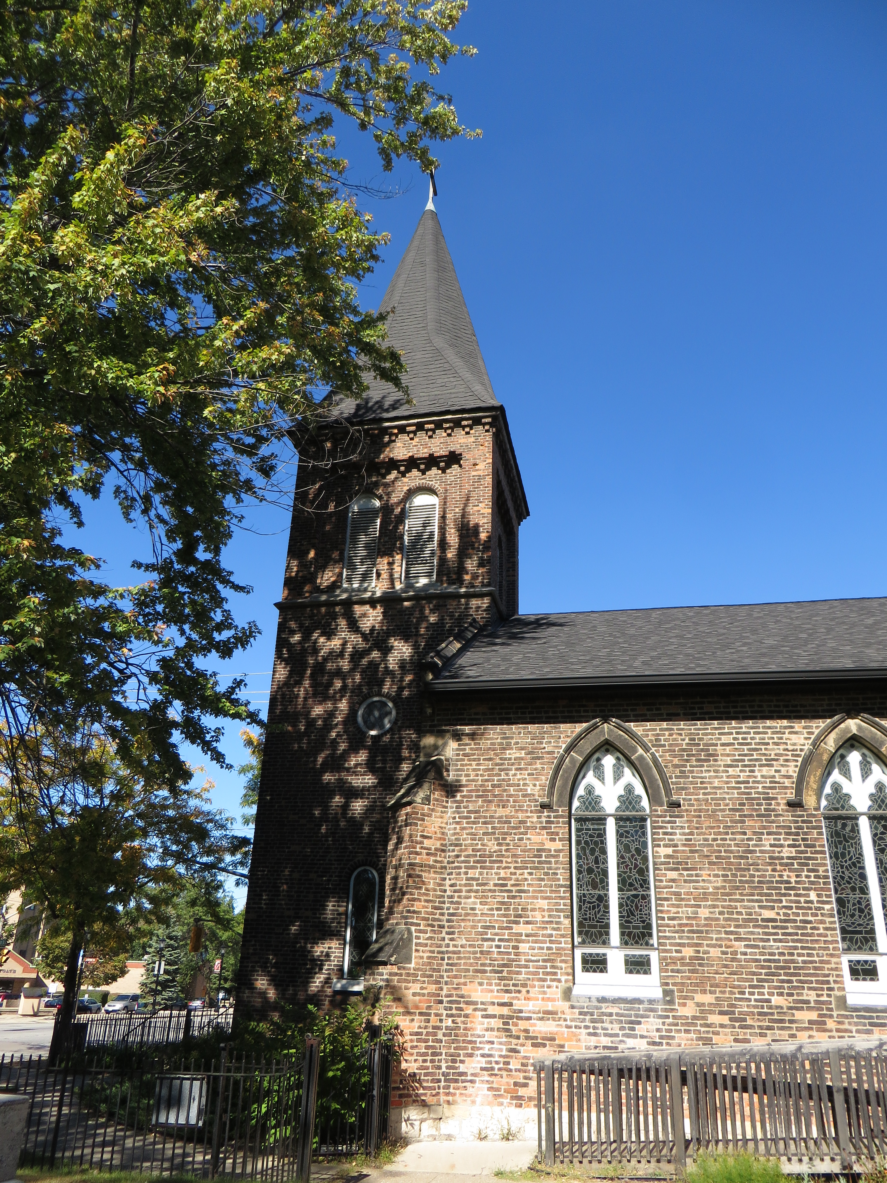 Sandwich Towne was first settled in 1749 as a French agricultural settlement, making it the oldest continually inhabited settlement in Canada west of Montreal. Many buildings and houses date to the mid-19th century. The neighbourhood is bounded by Detroit Street and Rosedale Boulevard along the northern edge, by the Essex Terminal Railway to the east and south, and the Detroit River to the west. The Windmill in Mill Park is a replica of an original Windmill. This neighbourhood was also the site of one of the major battles during the War of 1812, and the Windsor Rebellion of 1837, and as a battlefront of the Patriot War later in 1837. This neighbourhood is very proud of its rich and diverse history, having murals on many buildings' sides that show people, events, and buildings of the past, such as Ms. B. McKewan Arnold, the great-niece of the famous Benedict Arnold, founding a hospital/nursing station in Sandwich, and of how slaves fled from the southern United States and the Confederate States to freedom in Sandwich through the Underground Railroad before slavery was abolished. Sandwich was established in 1817 as a Town with no municipal status. It was incorporated as a town in 1858 (the same time as neighbouring Windsor was incorporated as a town). Sandwich lasted as an independent town until 1935, when it was amalgamated with Walkerville into Windsor. The neighbourhood maintains the former County Courthouse and municipal building and current community centre, Mackenzie Hall (built in 1855) by Alexander MacKenzie, the second Prime Minister of Canada, the Duff-Baby House (built in 1798) and a multi-purpose building which houses General Brock Public School, a Windsor Police Department precinct, and a branch of the Windsor Public Library and all at its famous "Bedford Square" (intersection of Brock Street and Sandwich Street).